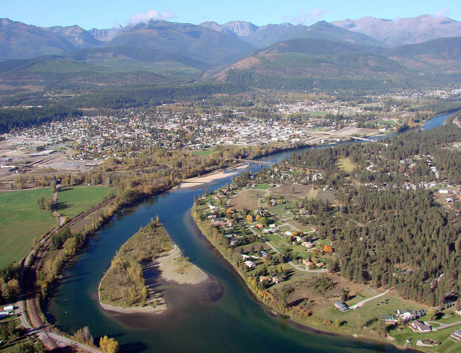 Libby is a small town in the northwest corner of Montana, 35 miles east of Idaho and 65 miles south of Canada. The town lies in a picturesque valley carved by the Kootenai River and framed by the Cabinet Mountains to the south.